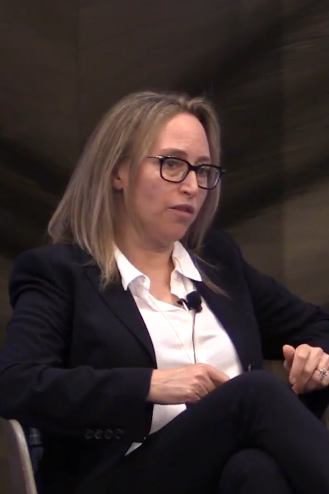 Jackie Soffer at AAFA Executive Summit 2018